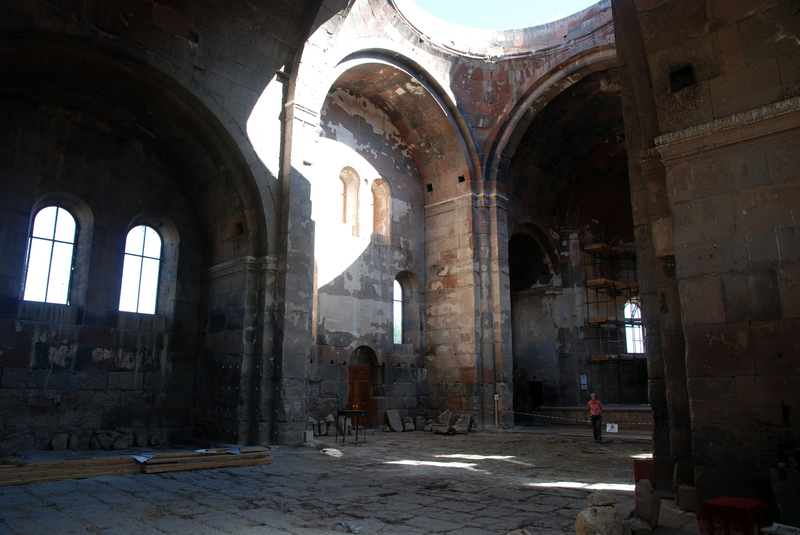 Aruch, cathedral north wall